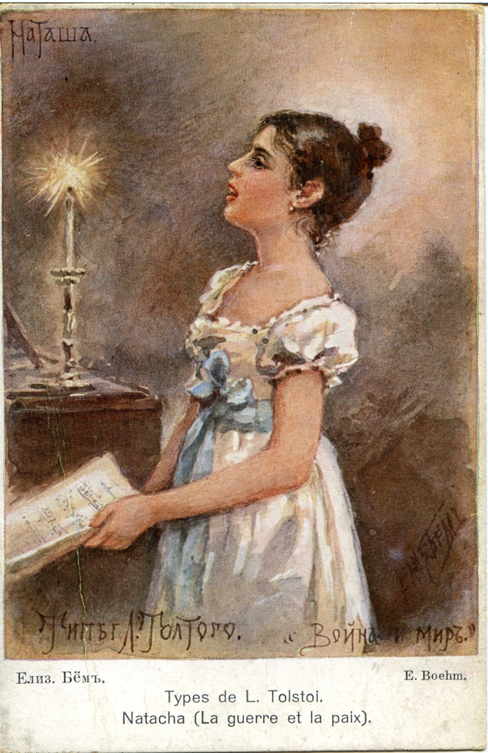 Postcard by Elizaveta Bem: Natasha Rostova from War and Peace